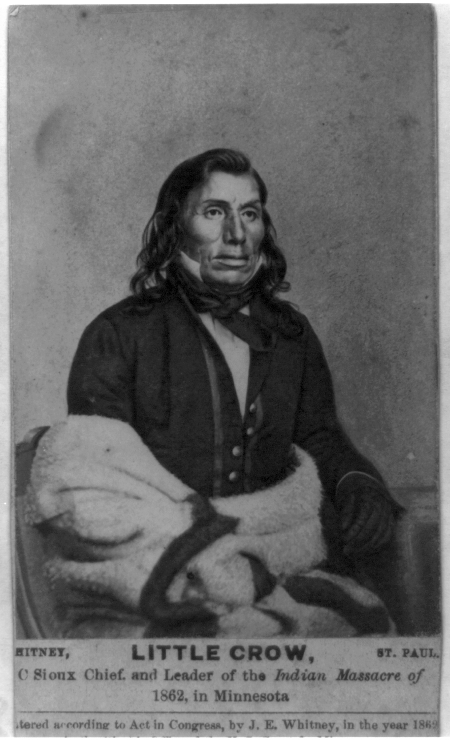 Taoyateduta (Little Crow), Sioux chief and leader of Indian Massacre of 1862 in Minnesota (b&w film copy neg.) cph 3a01881